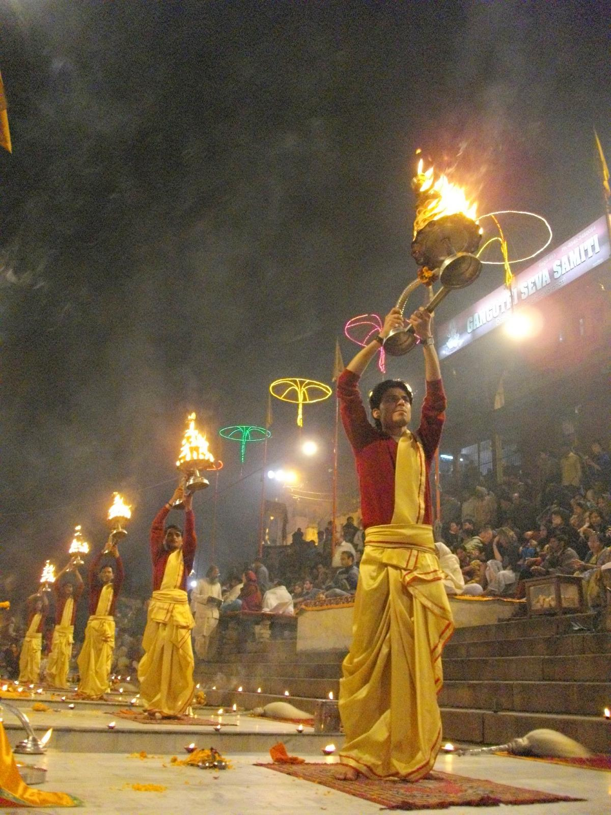 Aarti raised up during evening Ganga aarti, Varanasi.